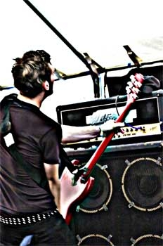 65daysofstatic at Truck 8 festival in 2005